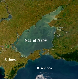 Azov sea satellite image from NASA